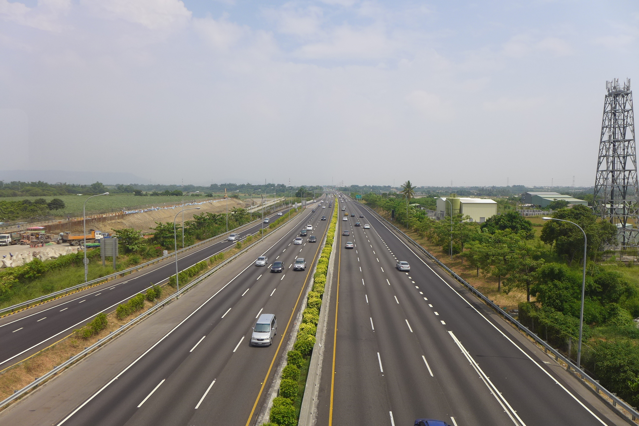 National Highway No. 1 Near Tainan Rende District